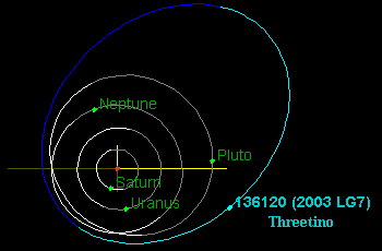 The elongated orbit of "threetino" (136120) 2003 LG7 compared to Pluto and Neptune.